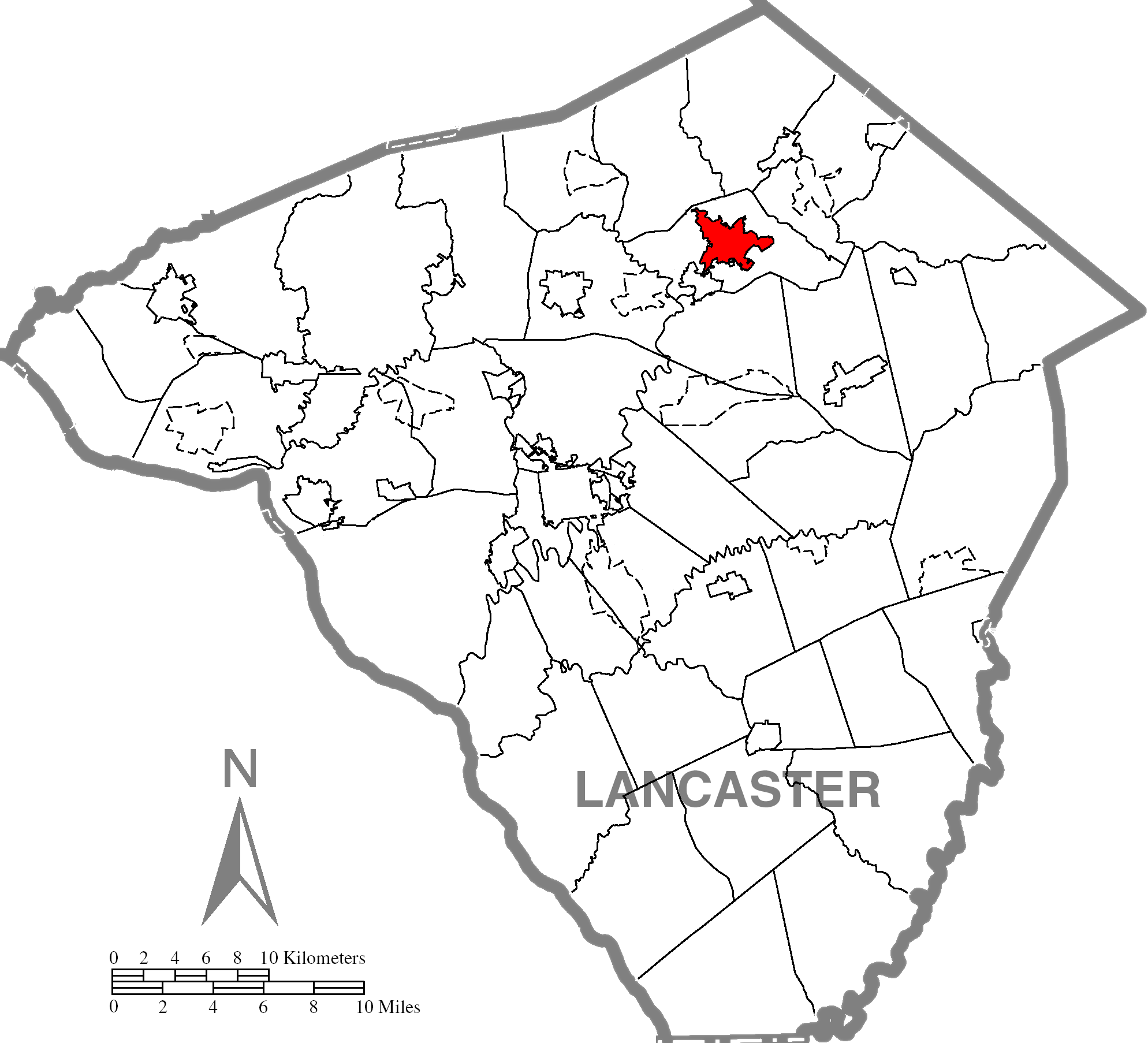 Highlighted Lancaster County map of Ephrata.